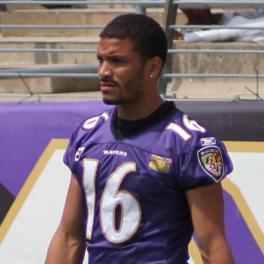 David Reed Practice at M&T Bank Stadium August 2011